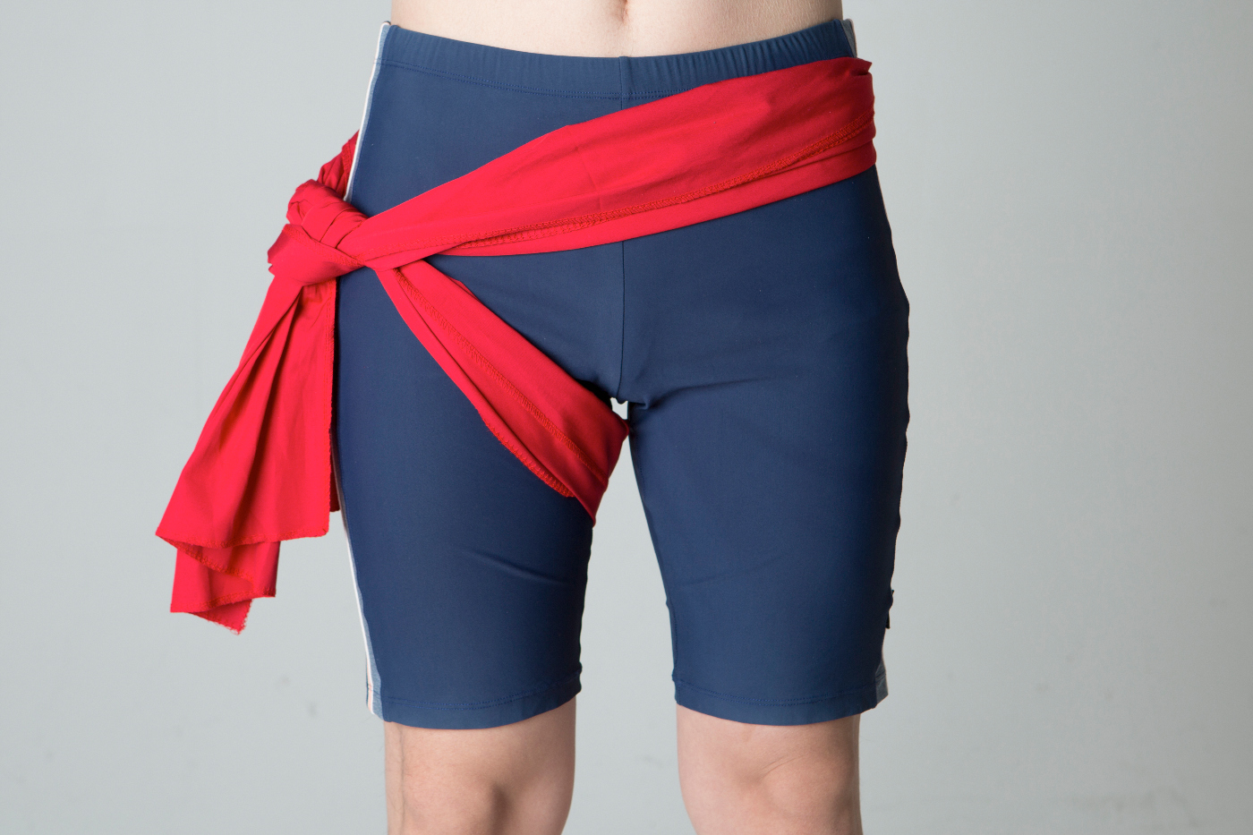 Satba (cloth sash)